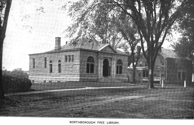 Public library, Massachusetts